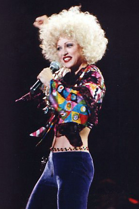 Photo taken during one of the concerts in 1993